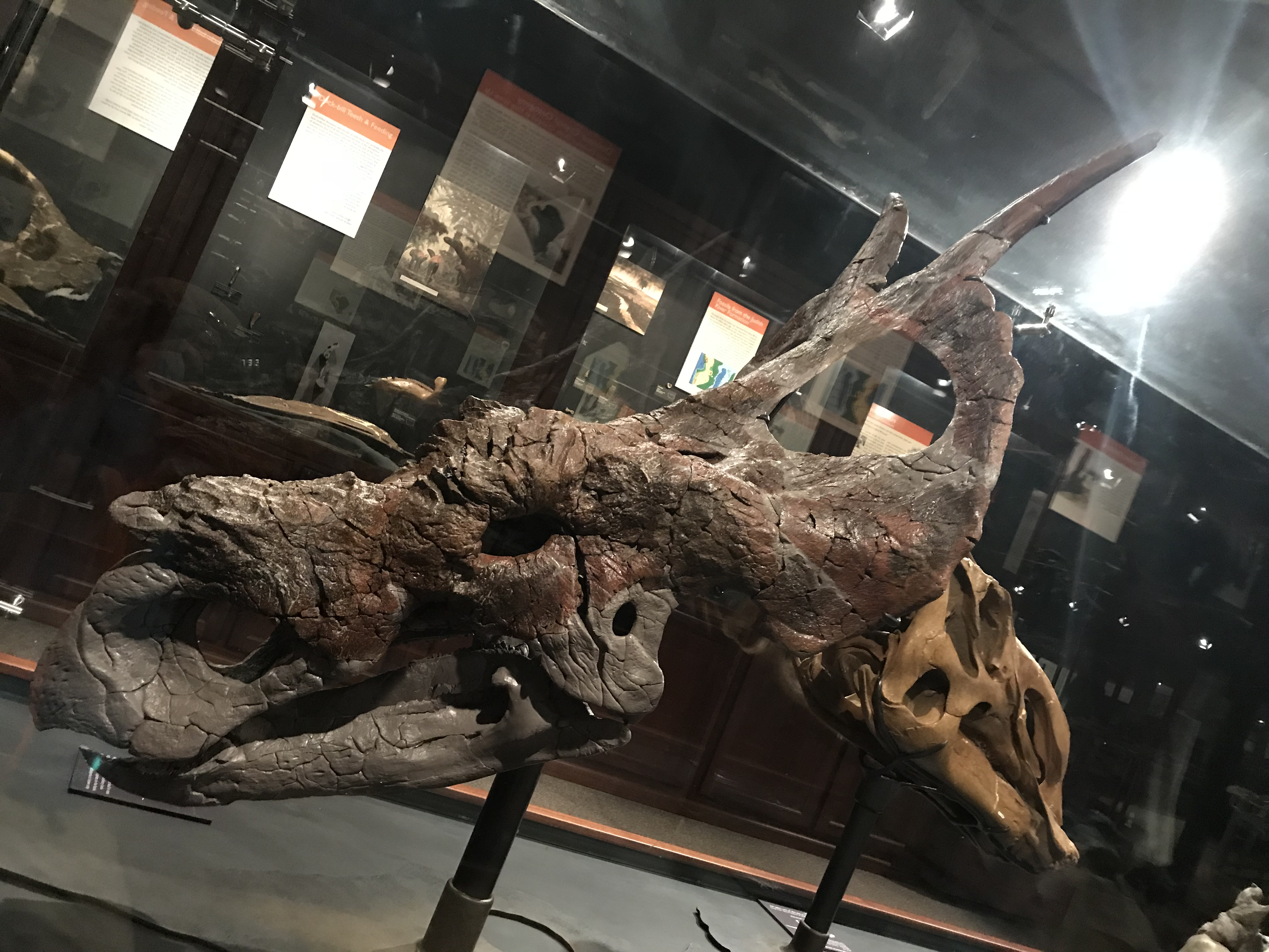 Skull of Achelousaurus in Museum of Rockies.